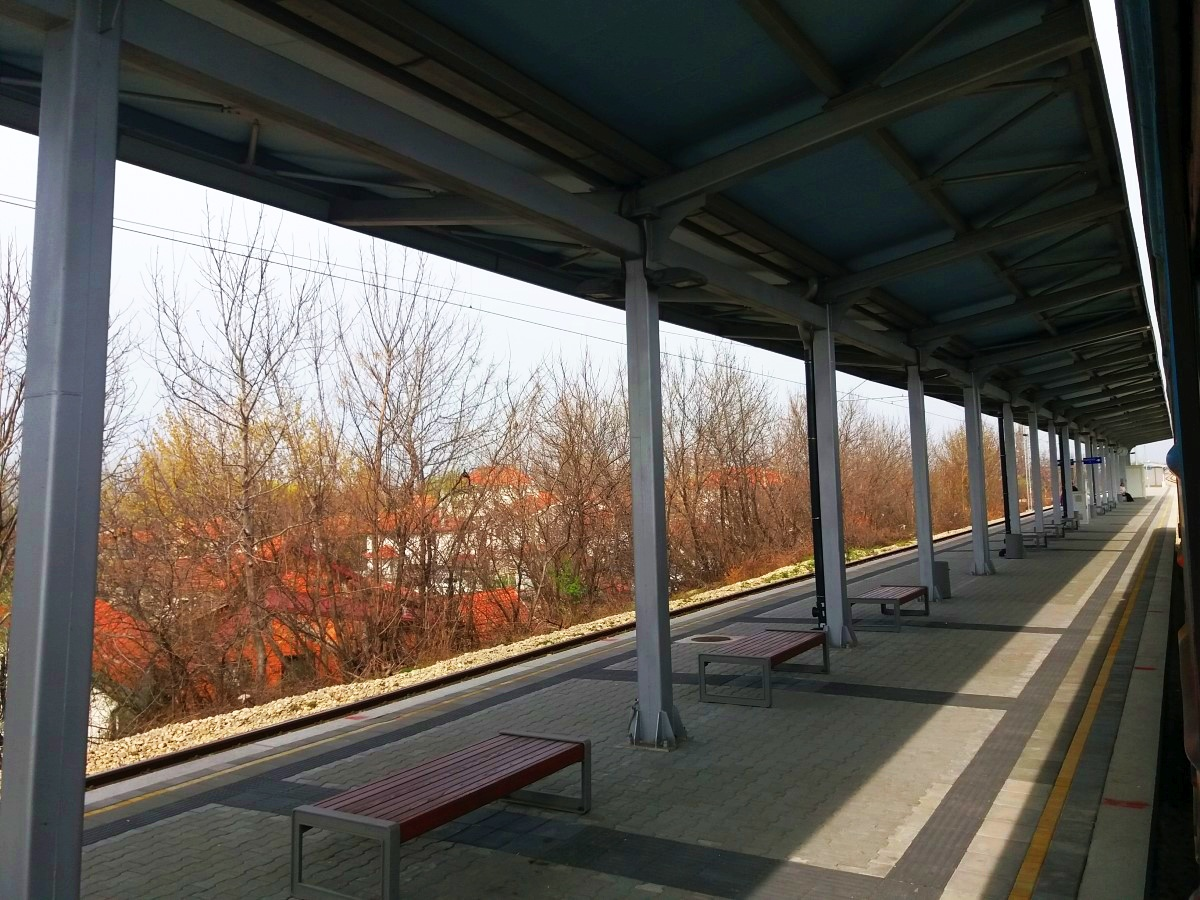 View of the only platform of Krnjača most railway station.